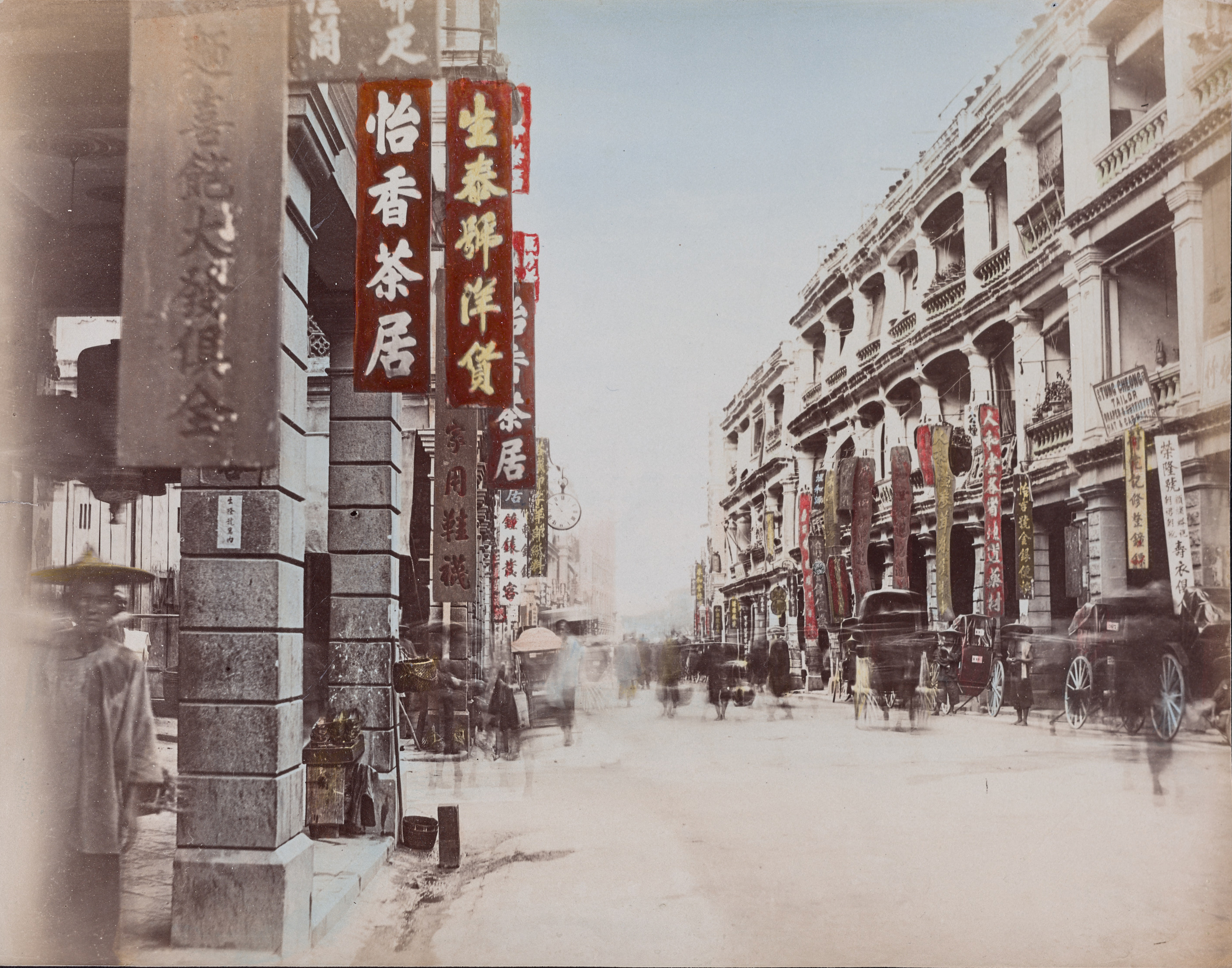 Photograph in People and views of China.